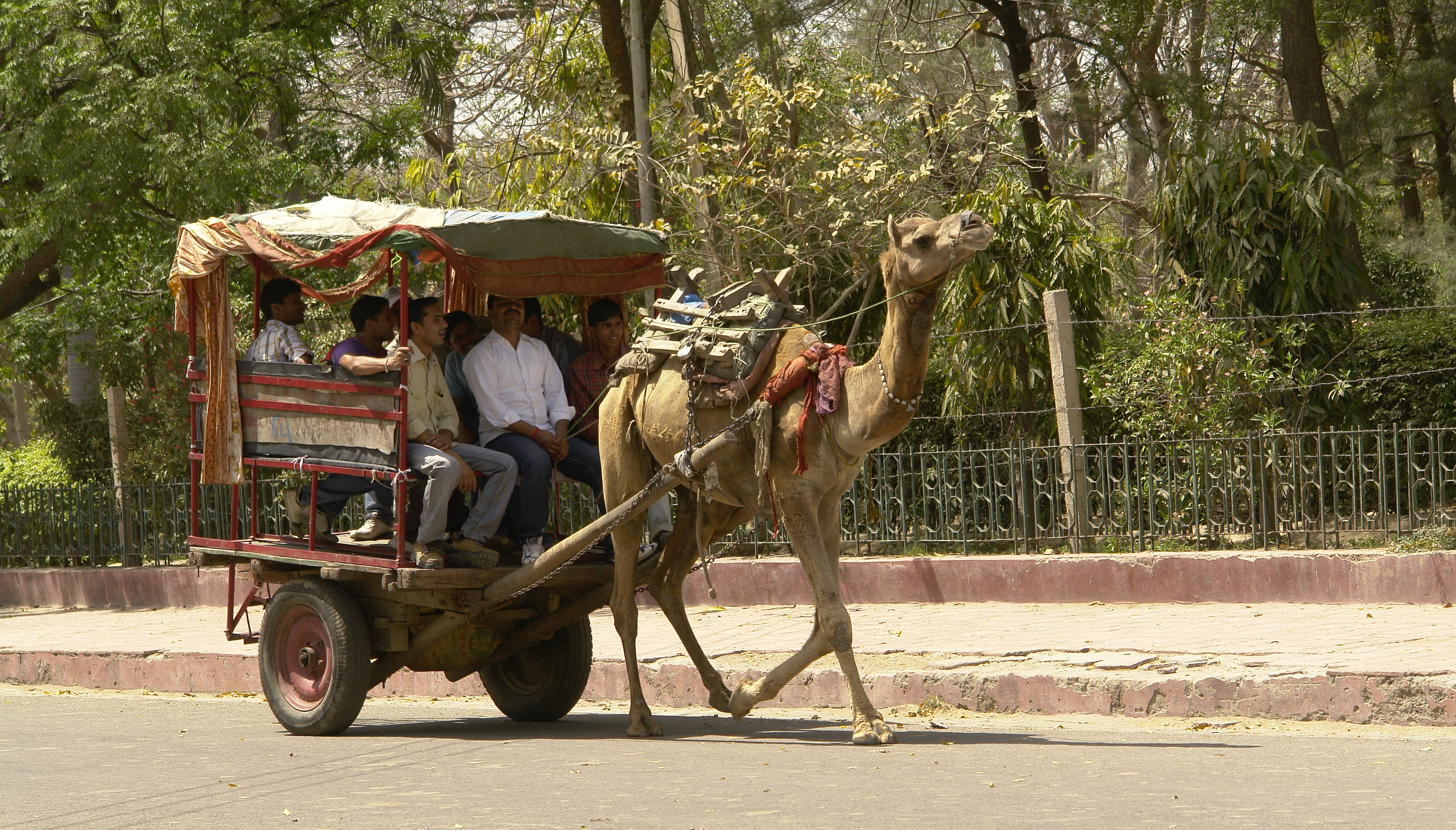 Camel cart carrying tourists, Taj Mahal, Agra, India.